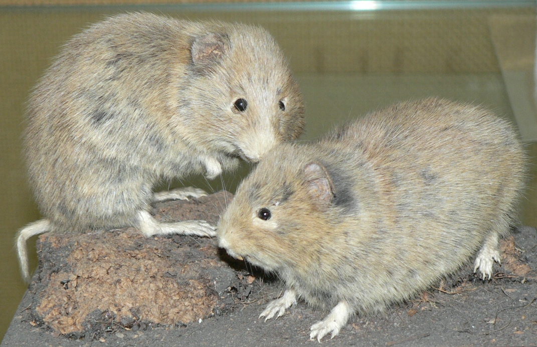 Author: Hauke Koch Source: Picture taken by myself (Hauke Koch) Location: Natural History Museum at Tring Date: 29.06.2007 Category:Images of rodents